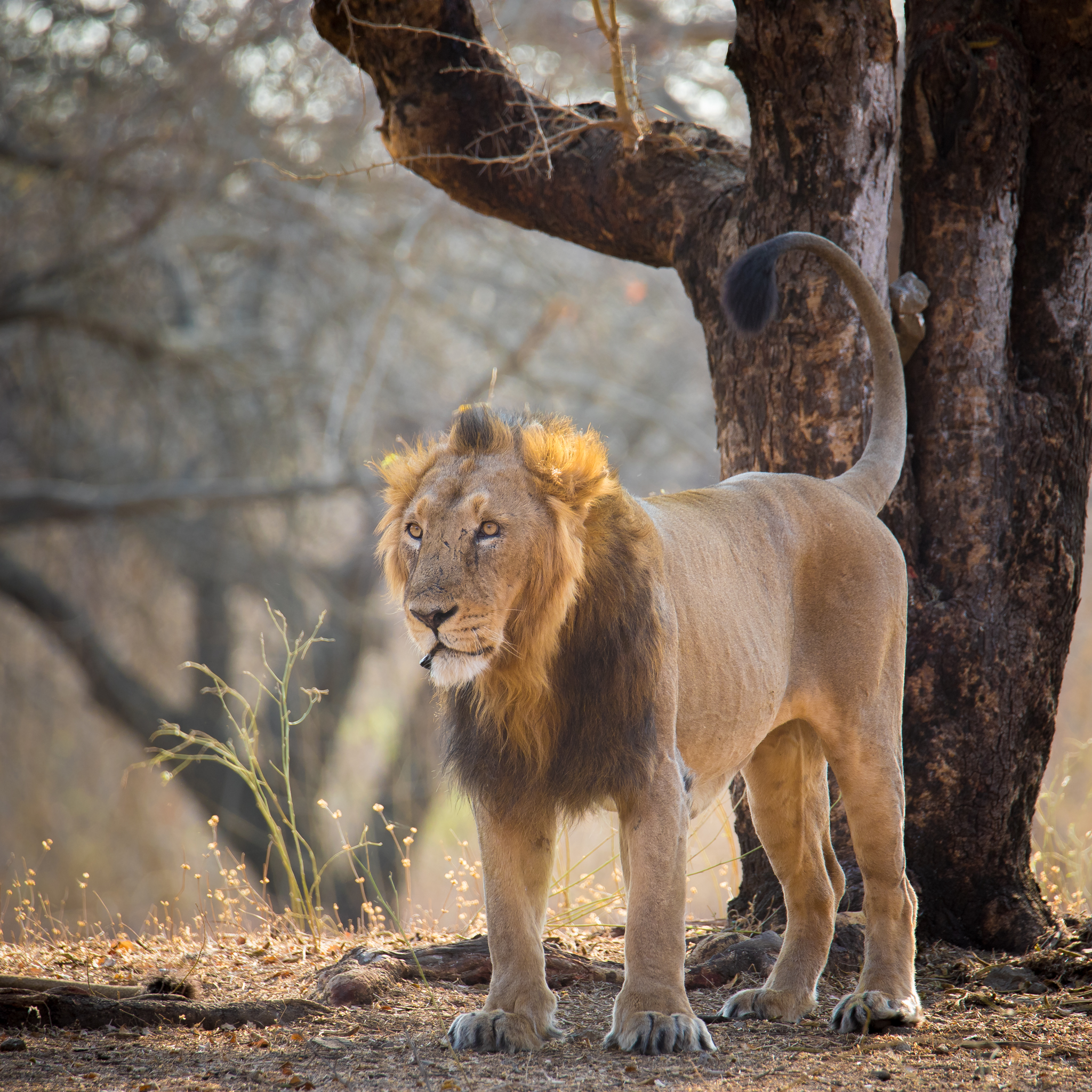 Male in afternoon light